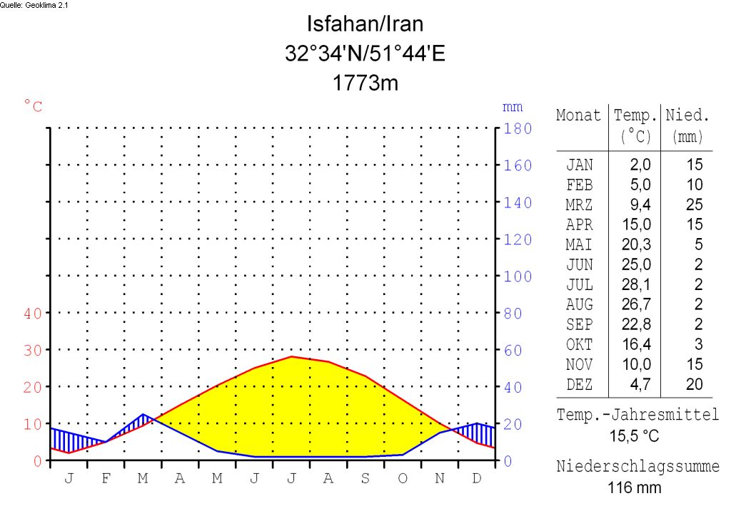 climate chart in the format by Walter and Lieth, metric, °Celsisus and millimeters, made with Geoklima 2.1